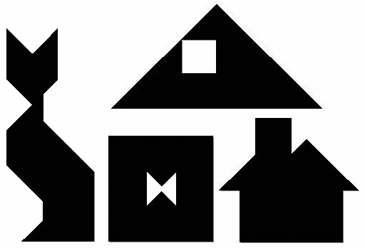 Siren-Com own-made graphic design migration from Wikipedia fr. 2008-11-25 13:06